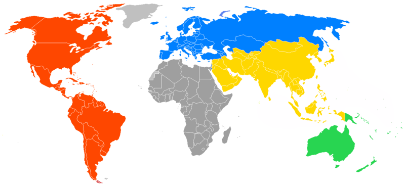 Map of world in 5 colors